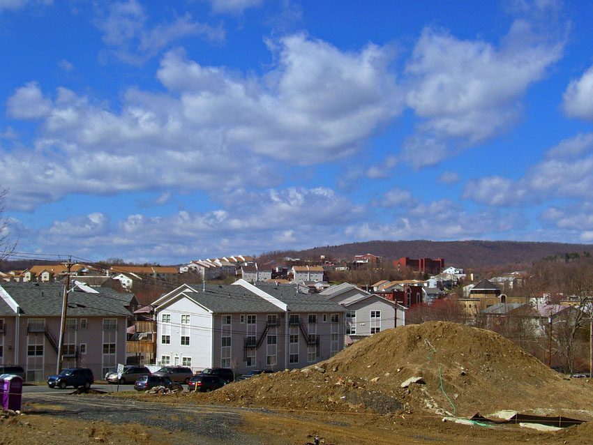 Photographed by Daniel Case 2006-04-04